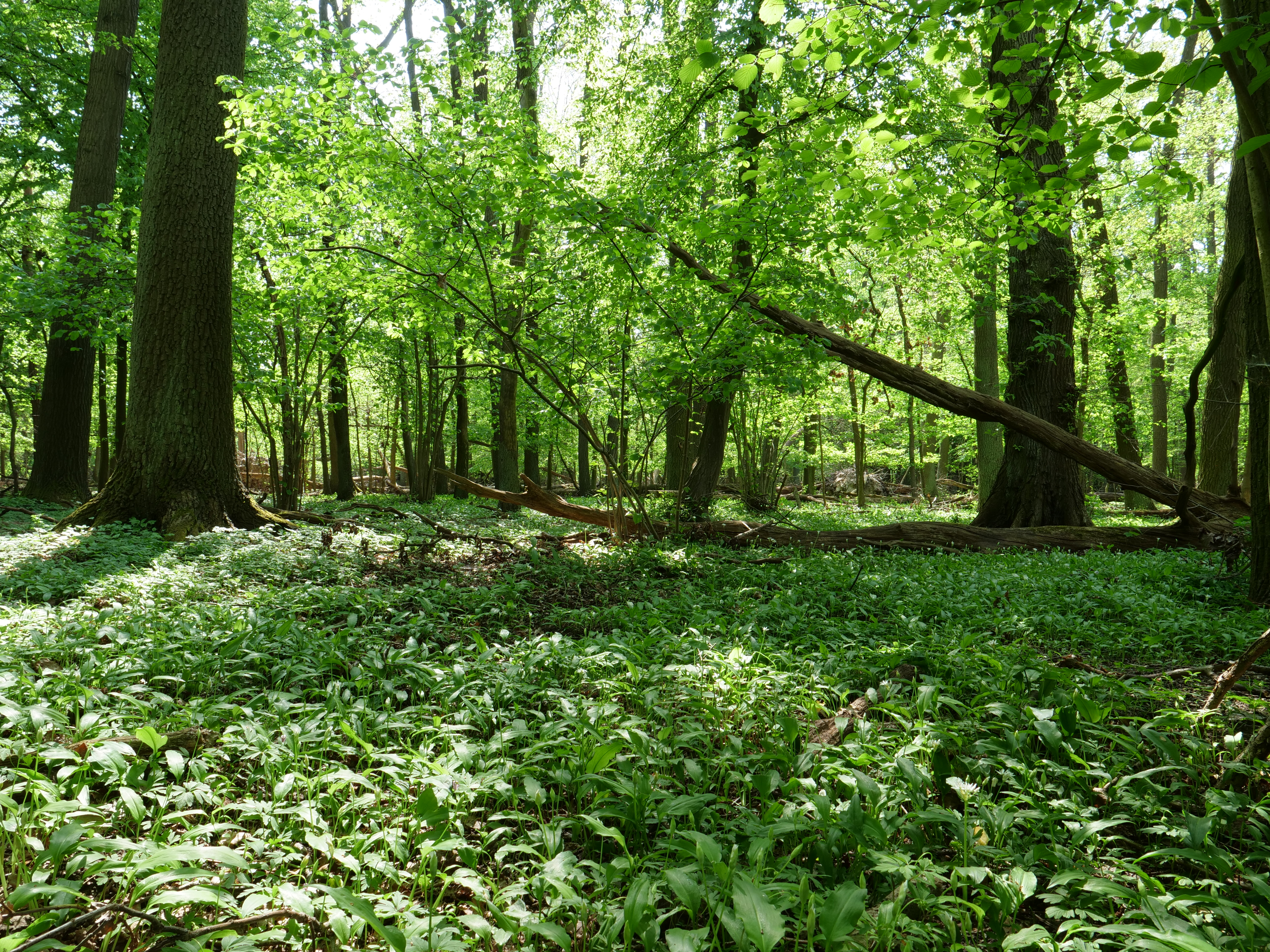 Spandauer Luchwald near the Eiskeller in spring. NSG-46